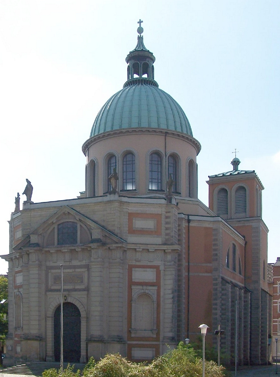 Basilika St. Clemens, Hanover's central catholic church, consecrated in 1718, Hannover